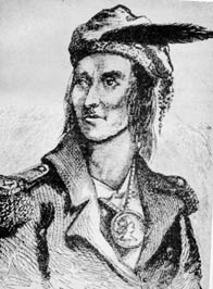 Portrait of Tecumseh by Benson John Lossing, after a pencil sketch by French trader Pierre Le Dru at Vincennes,[1][2] taken from life about 1808[3][4][2][5][6] (maybe 1807)[7] or 1812[8] (during War of 1812[1]—present version actually is a somewhat cropped, at left, bottom, and feather, version of the printed portrait[9] as well of Bill Carr's GIF rendering[5]). See #Quotes below for descriptions on other websites, #Other portraits for portraits (outside Wikimedia Commons) that are derived or may help to judge the accuracy of the present portrait, and #Likeness for some supplementary reasoning about likeness.